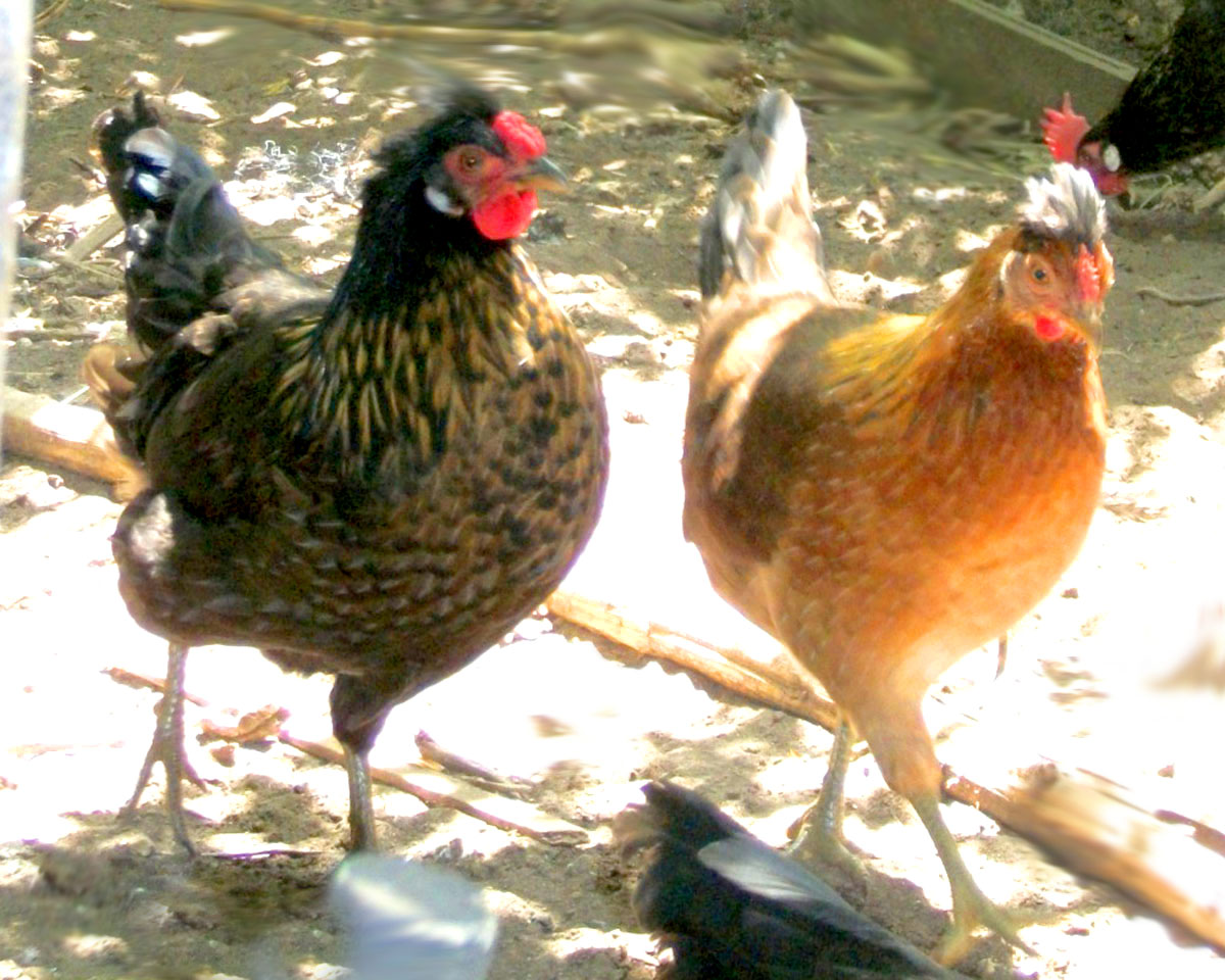 Two Icelandic Chicken hens - both pheasant colored but one is almost black and the other is much lighter. Hamilton, Montana.